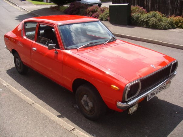 1977 Datsun 100A F-II (A10 engine) 2-door sedan.